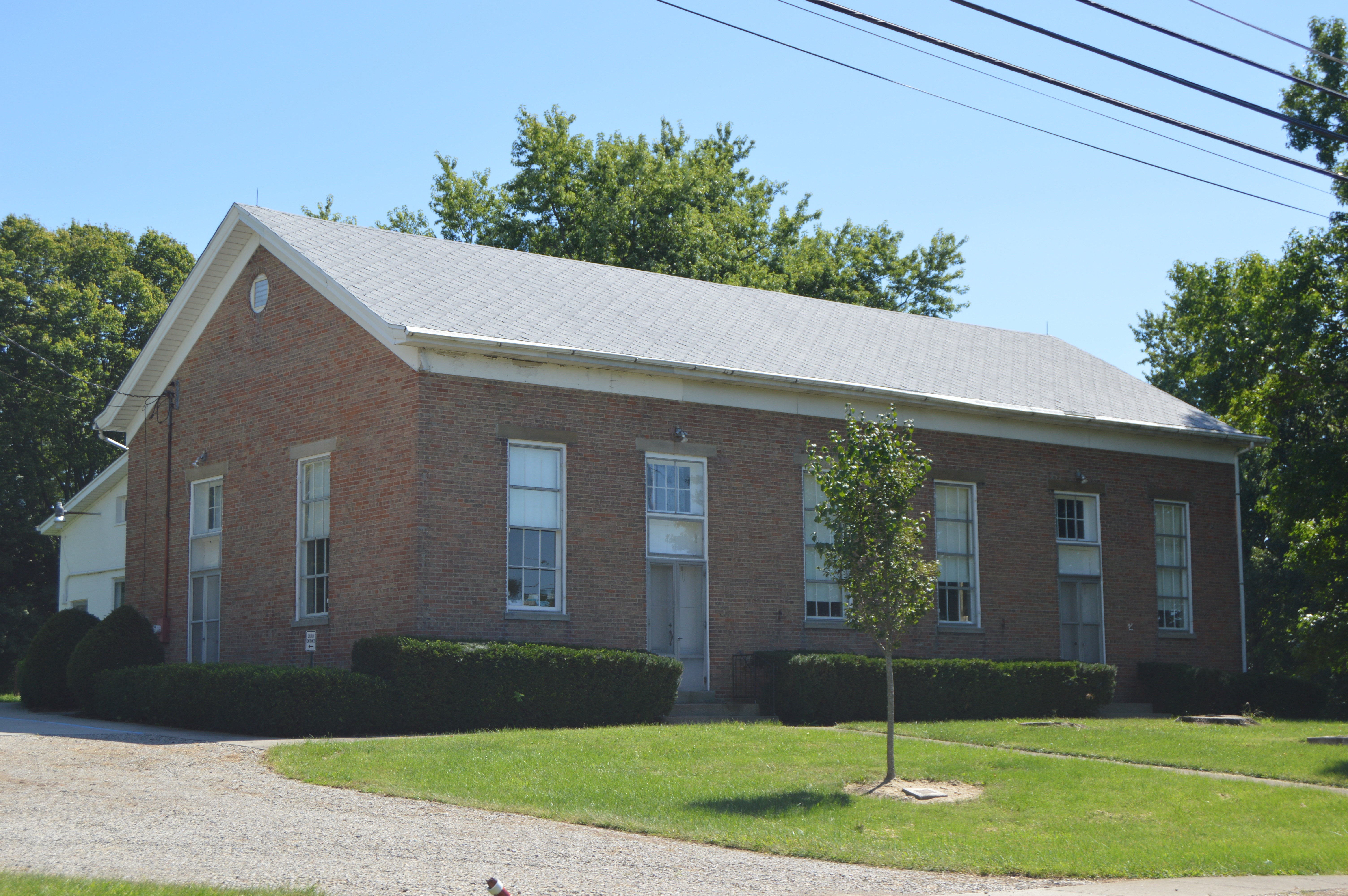 Front of the West Elkton Friends Meetinghouse, located at 147 State Route 503 in West Elkton, Ohio, United States.